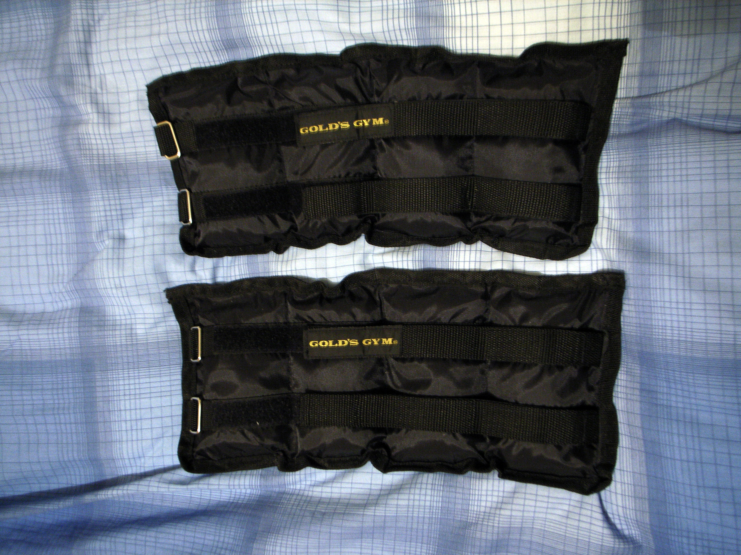 Picture of a set of ankle weights.